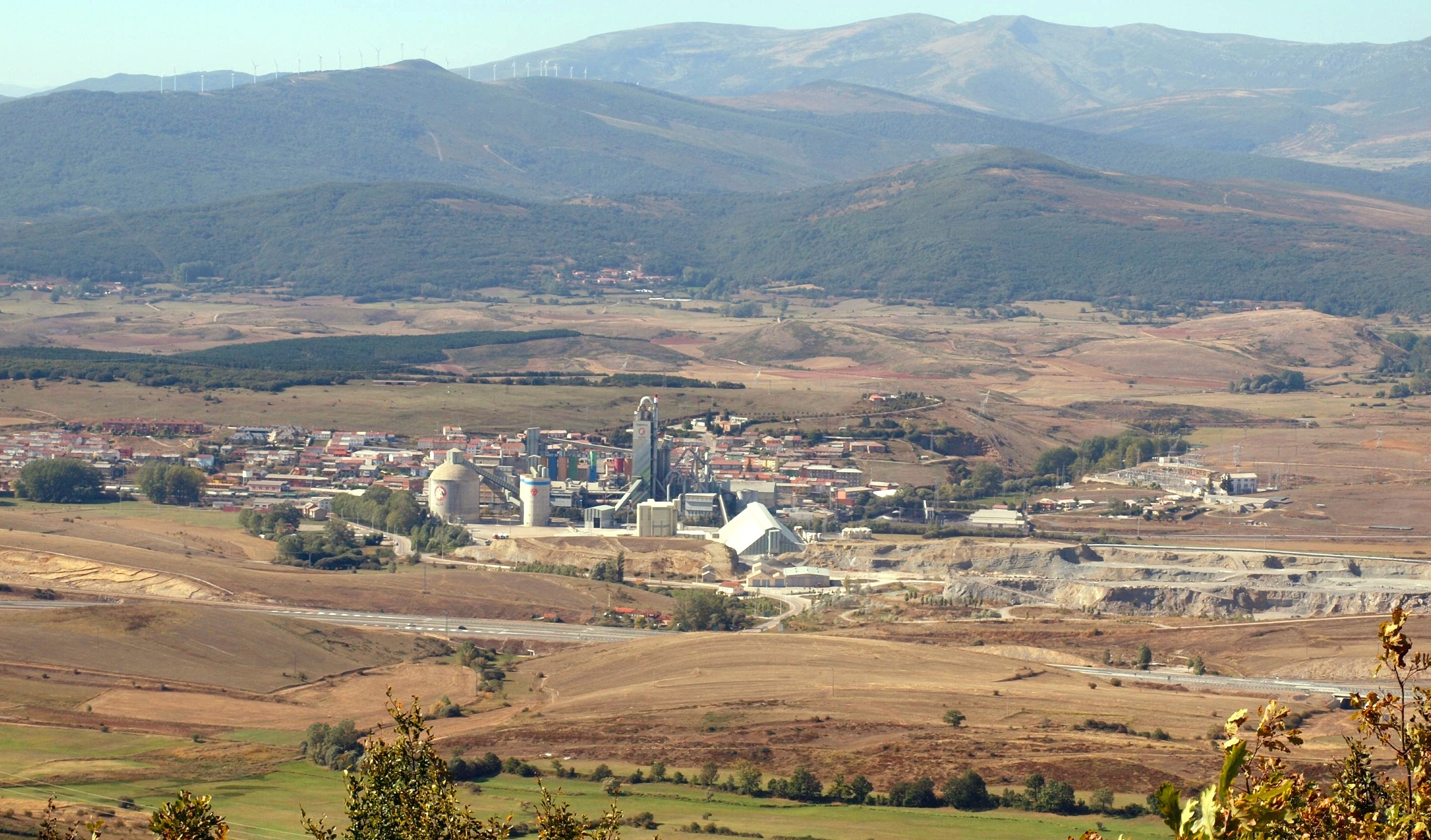 Town of Mataporquera, in Cantabria (Spain)